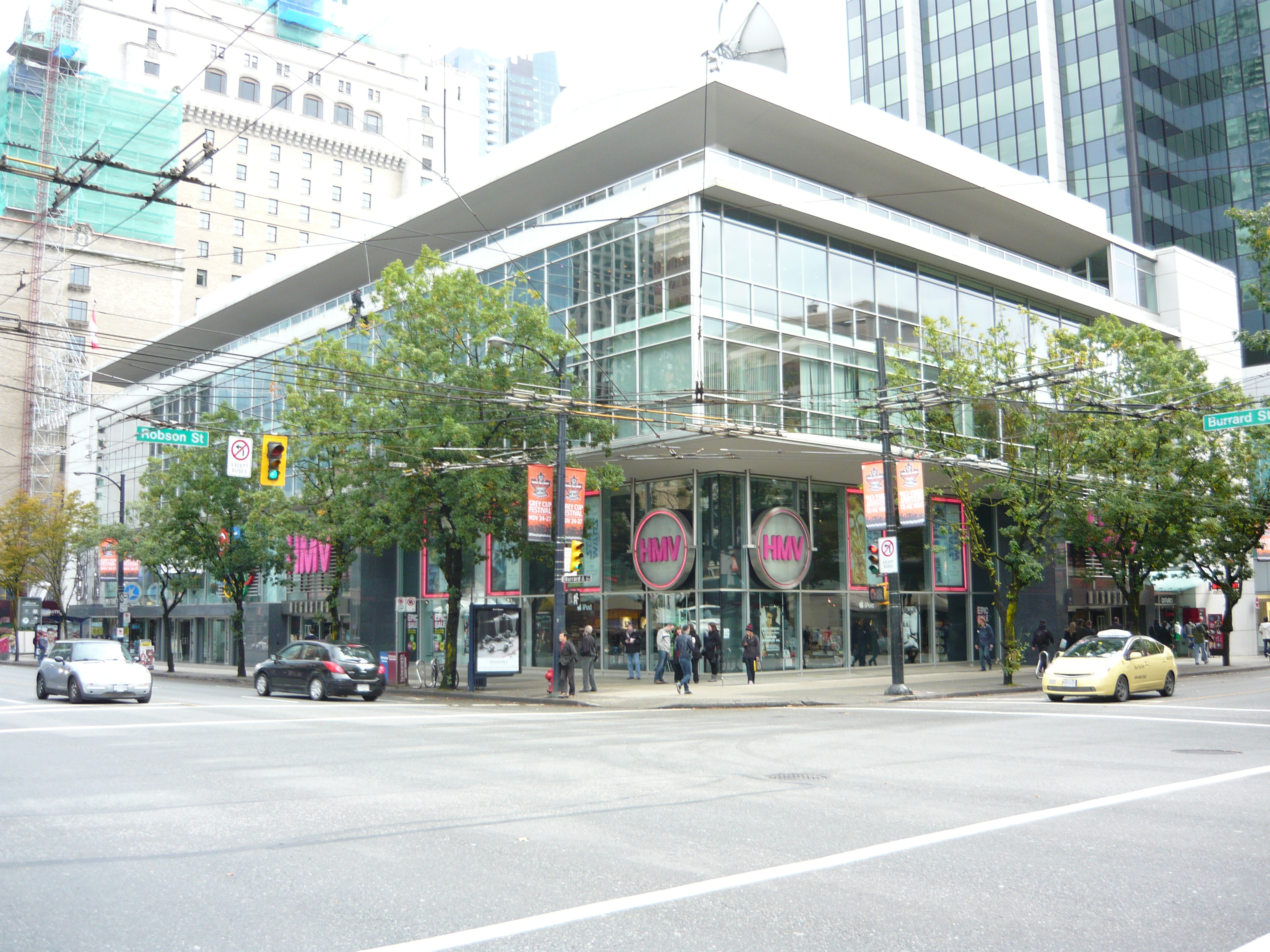 Former Vancouver Public Library, 750 Burrard Street at Robson Street, Vancouver, British Columbia, Canada. Opened 1957. Architects: Harold Semmens and Doug Simpson.